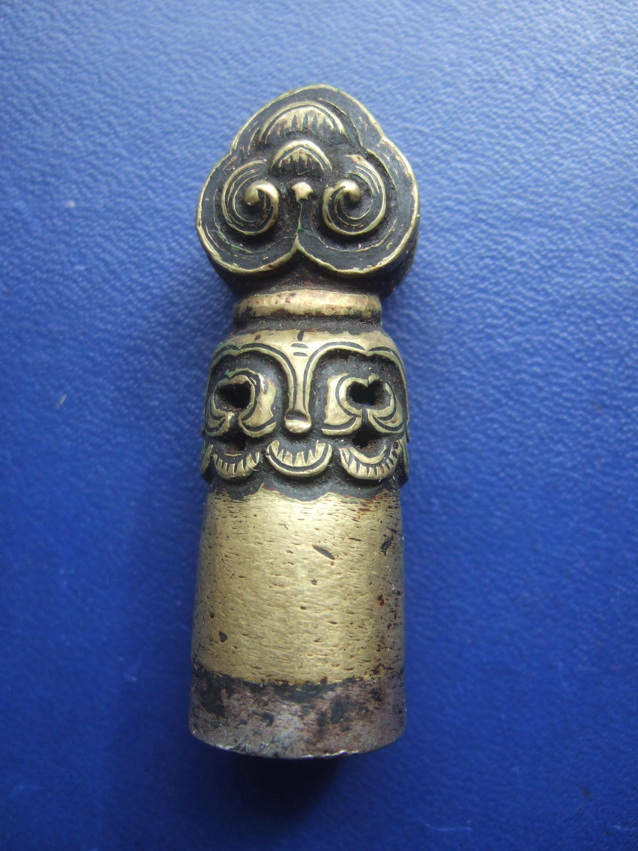 Tibetan private seal with bronze handle, no. 8